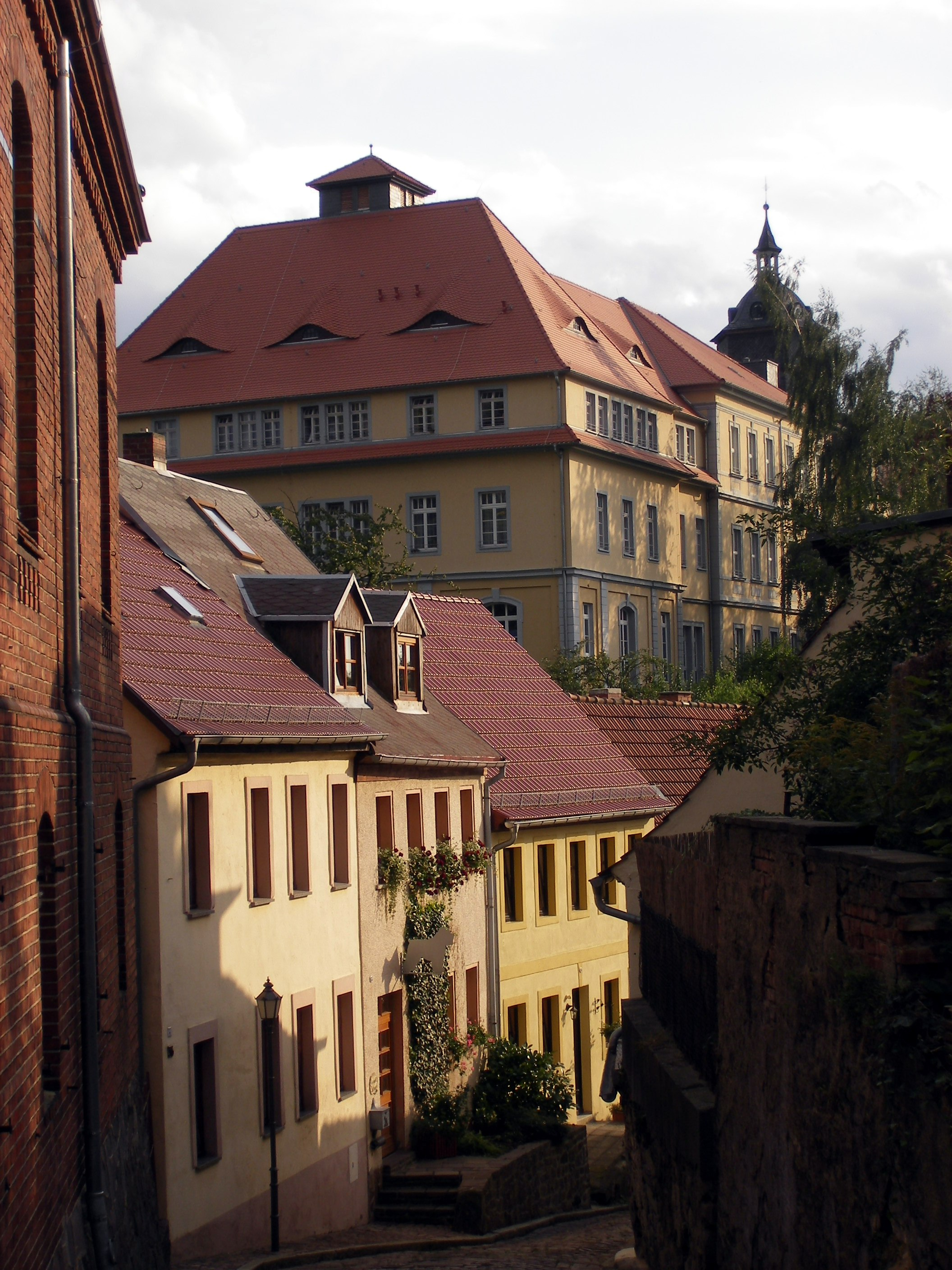 Virgin alley in Altenburg/Thuringia with view on monastery of Magdalene Sibylle of Saxony